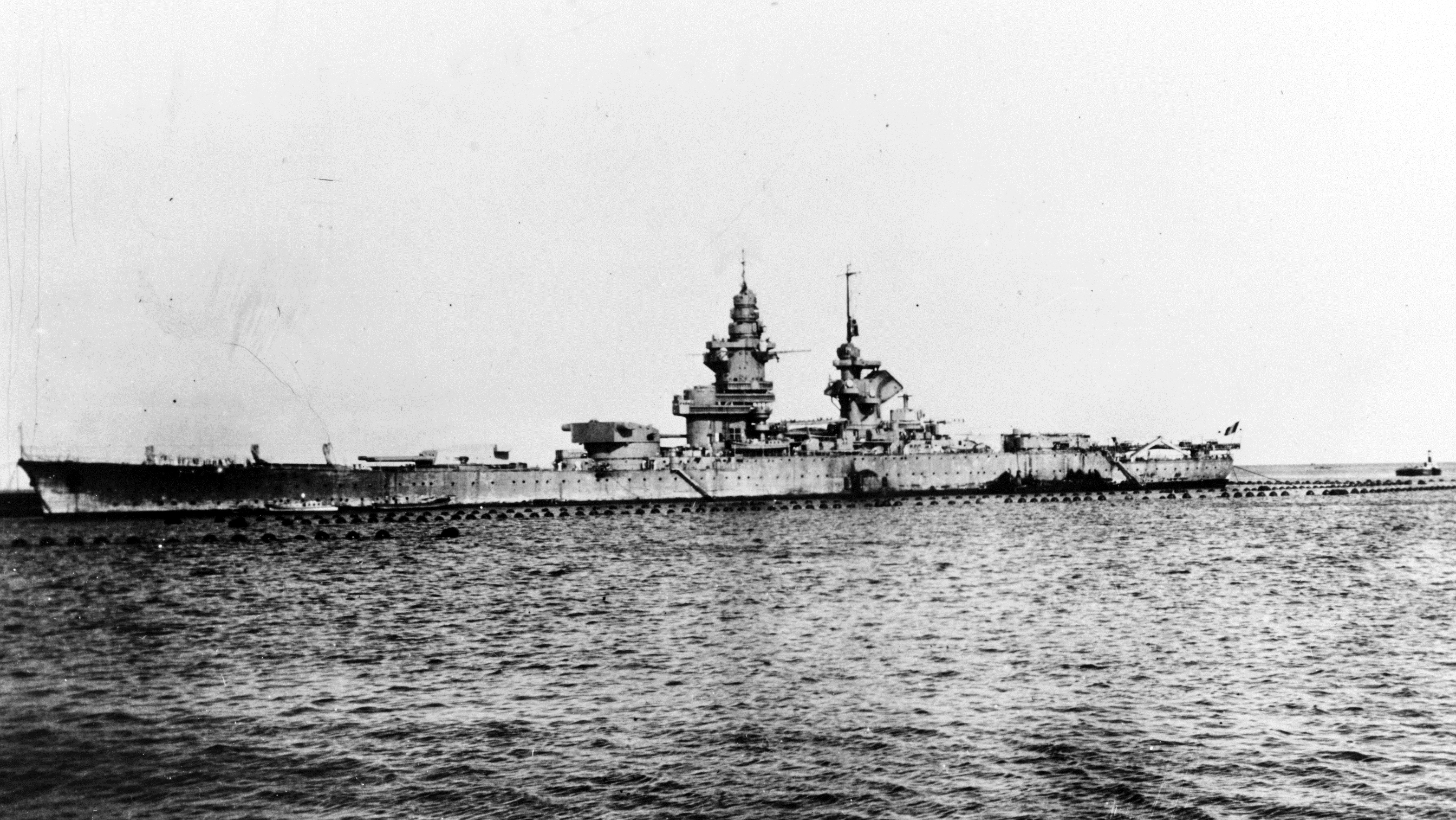 Battleship Richelieu, ONI203 booklet for identification of ships of the French Navy, published by the Division of Naval Inteligence of the Navy Department of the United States (9 November 1942). The photo depicts Richelieu at Dakar in French West Africa on 25 July 1940.